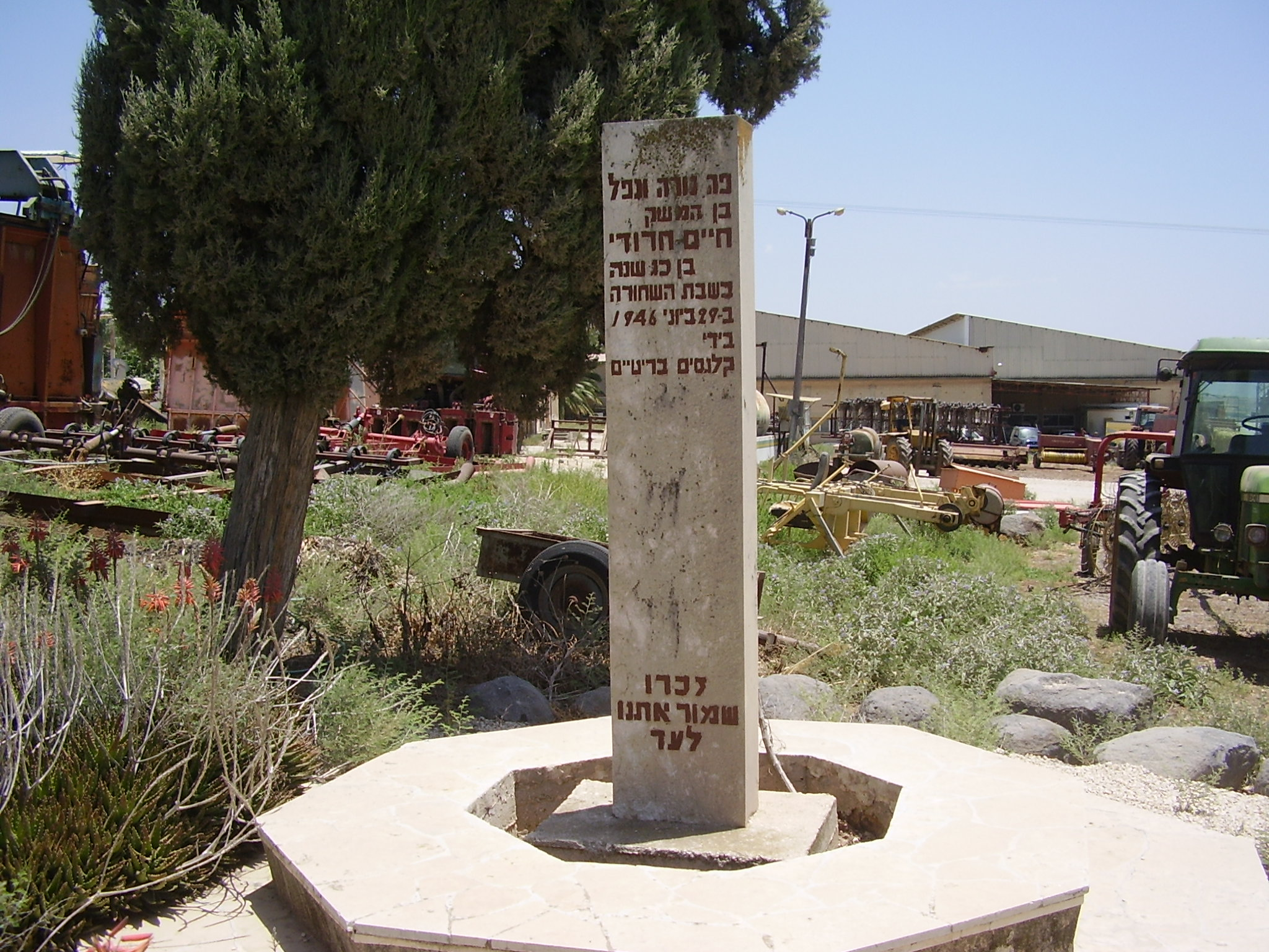 memorial to chaim kharodi in kibbutz tel-yosef